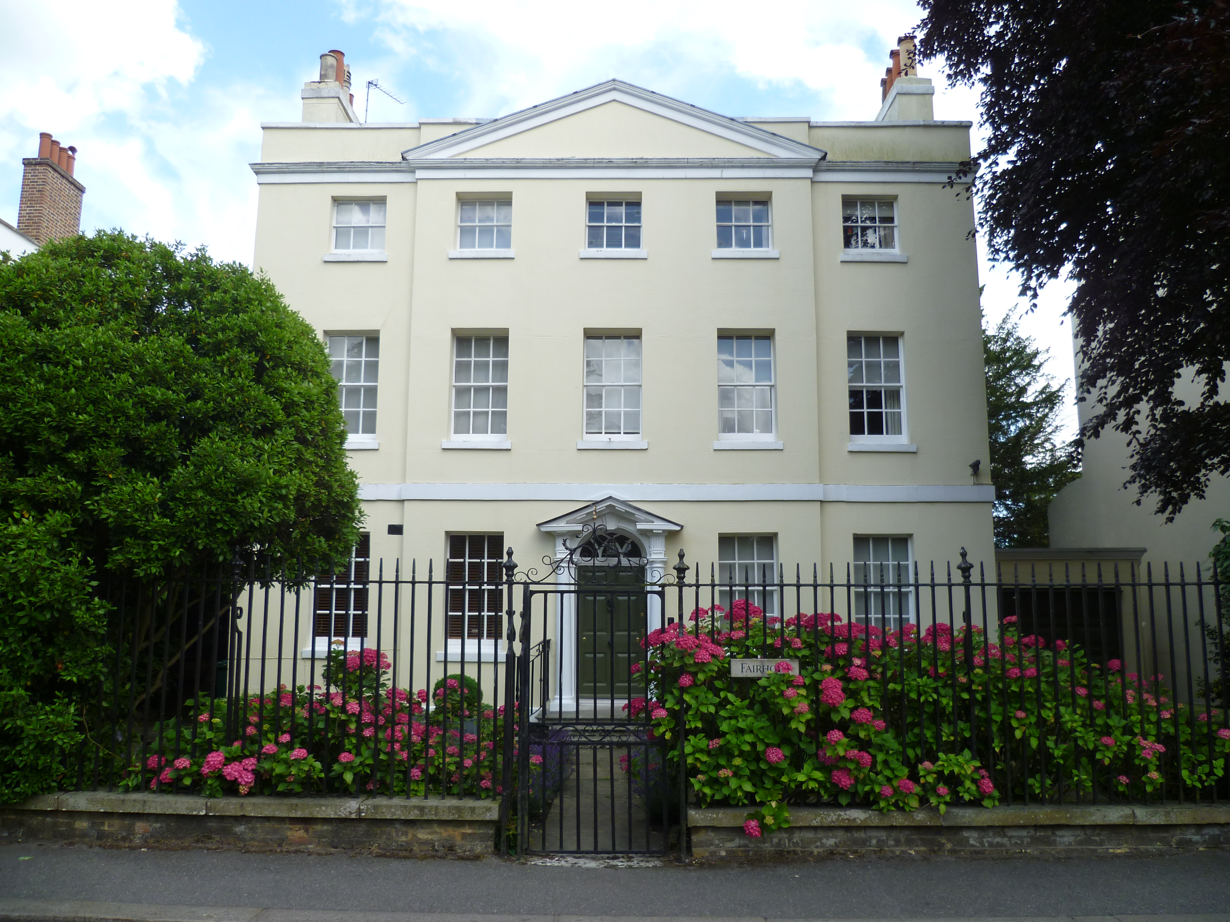 Fairholt, Monken Hadley